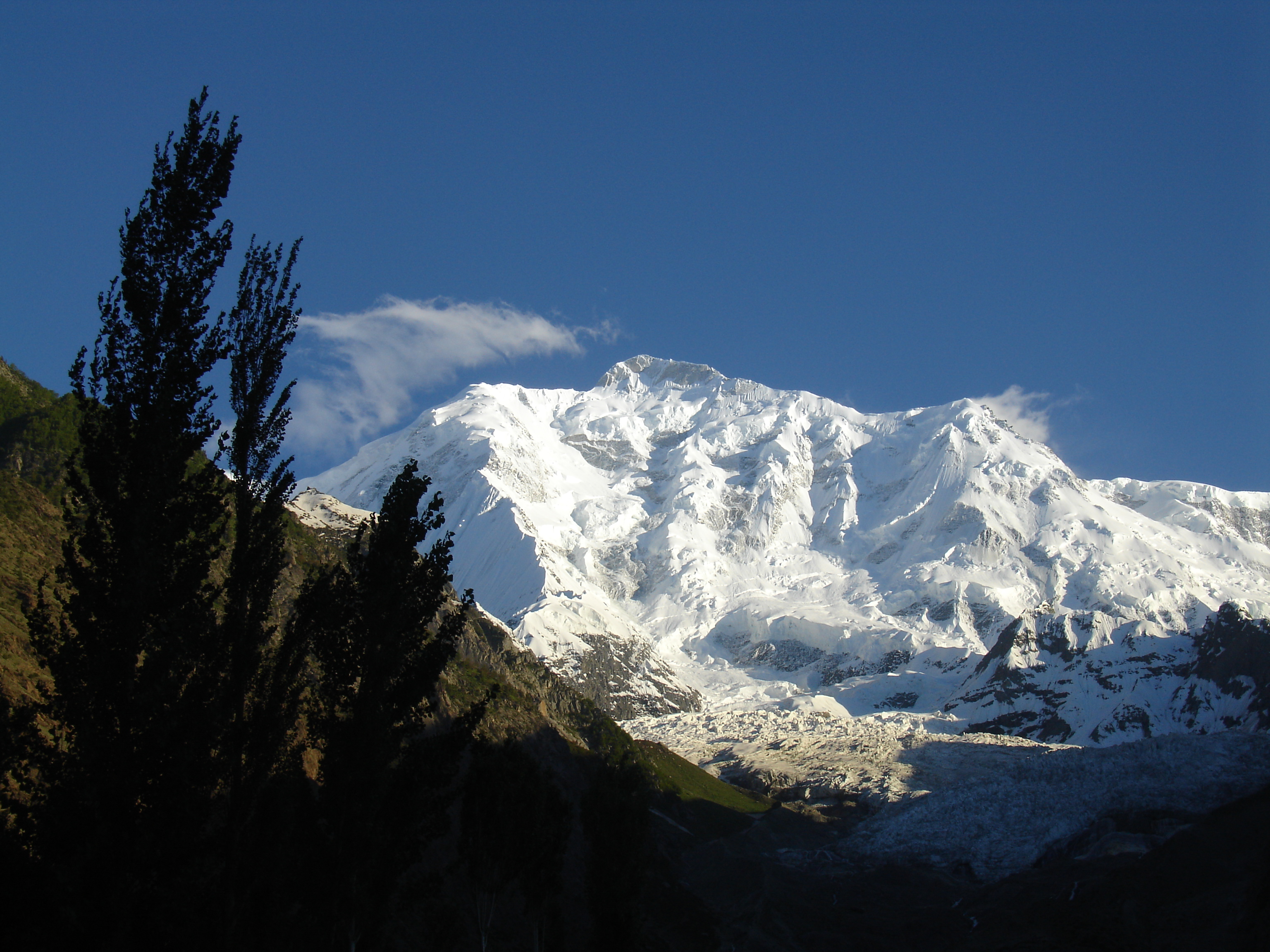 sun set near Rakaposhi - photo captured by my Sony camera